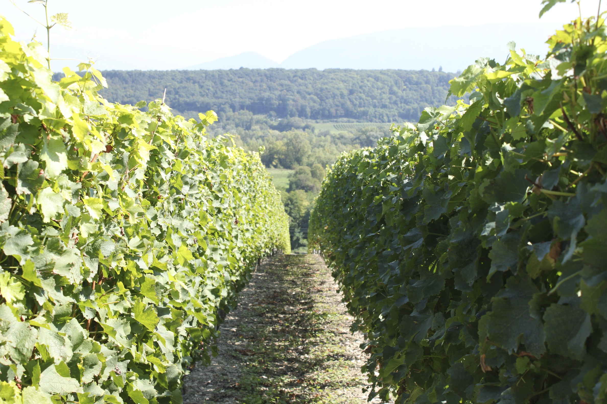 Vines in Russin, GE, Switzerland